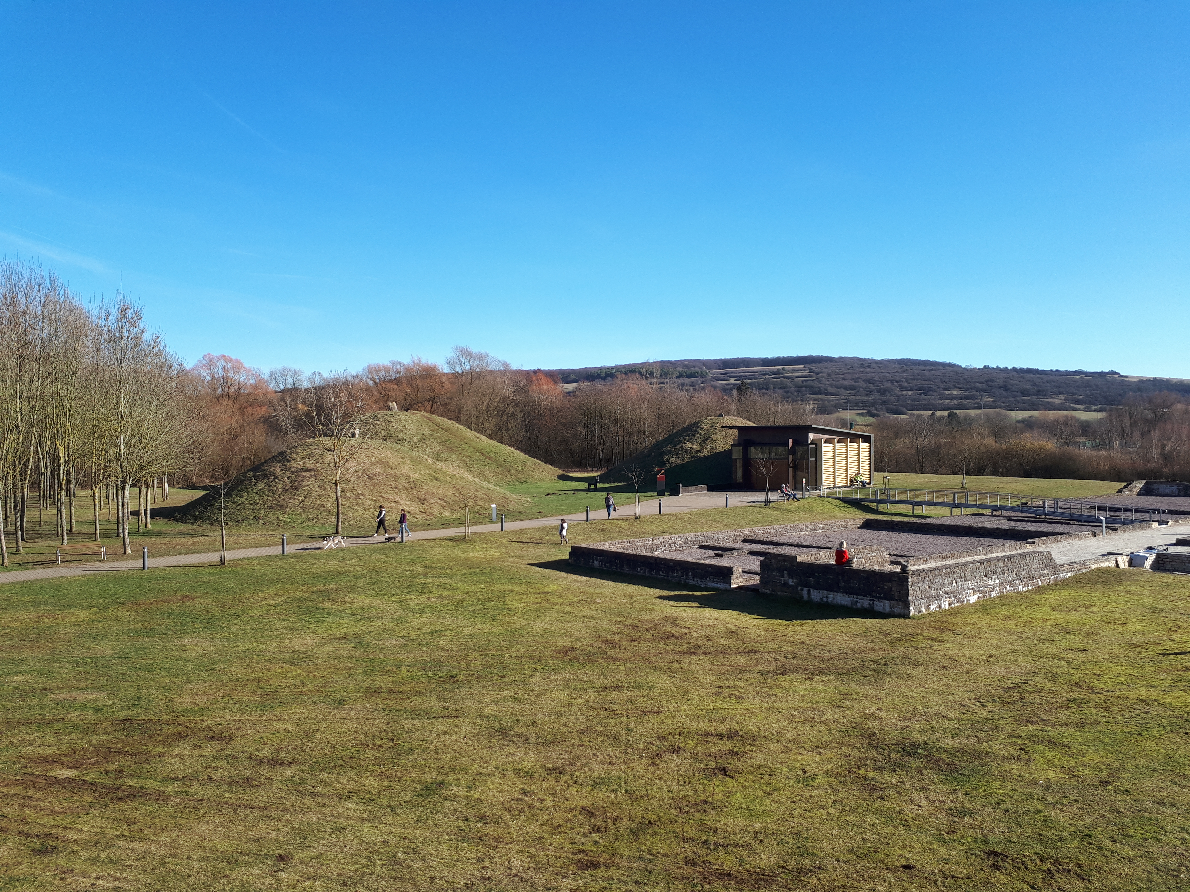 Reconstructed burial mound of the princess grave of Reinheim.